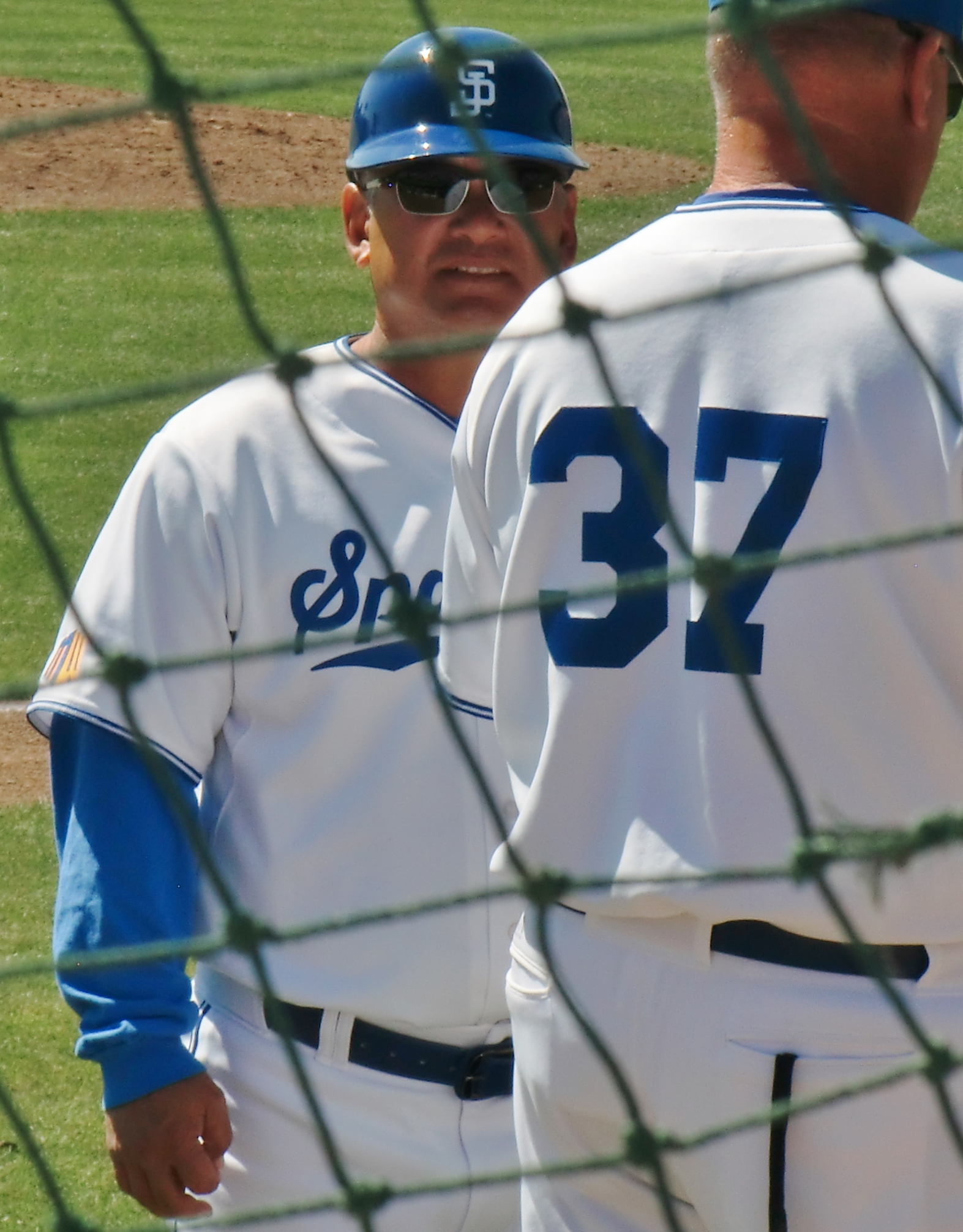 San Jose State University baseball head coach Dave Nakama during a home game against Fresno State on March 27, 2016 at Municipal Stadium in San Jose, Calif.